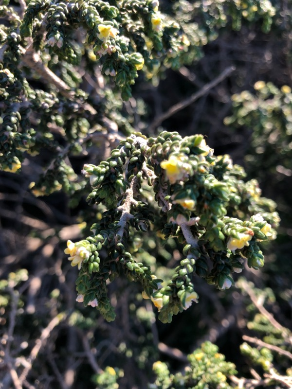 Passerine hérissée in Giens peninsula (Hyeres Var)